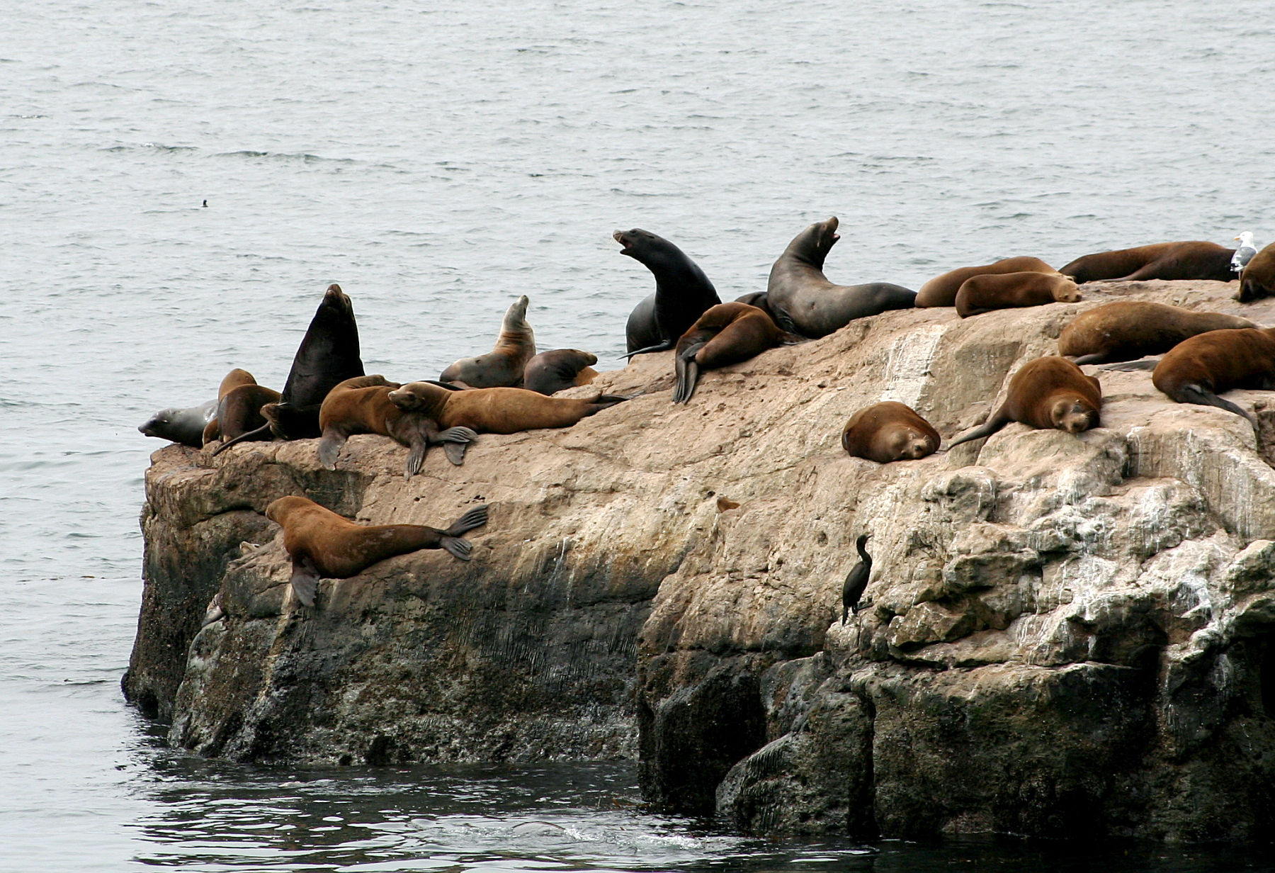 California Sea Lion (Zalophus californianus) seen in Santa Cruz, California.